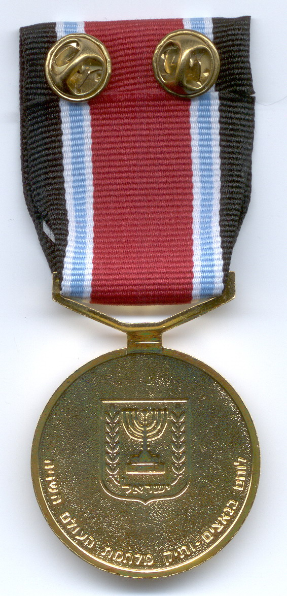 Fighter against the nazis medal (reverse)